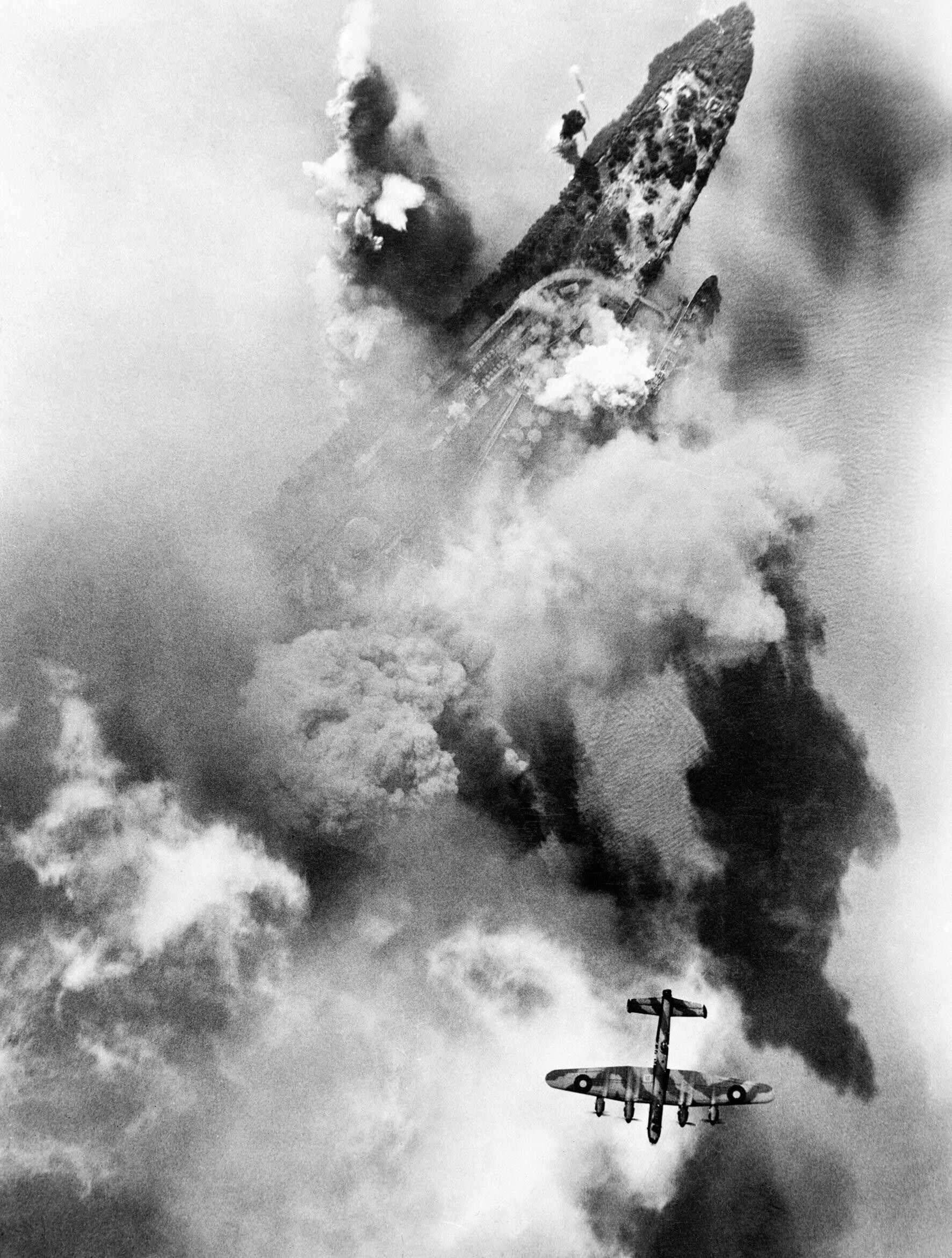 An Avro Lancaster of No. 514 Squadron RAF over the target during a Bomber Command attack on oil storage tanks at Bec d'Ambes in the Garonne estuary, 4 August 1944. Vertical aerial photograph taken during a daylight attack on an oil storage depot at Bec d'Ambes situated in the Garonne estuary at the confluence of the Rivers Garonne and Dordogne, France. An Avro Lancaster of No. 514 Squadron RAF flies over the target area while dense clouds of smoke rise as bombs burst among the oil storage tanks.